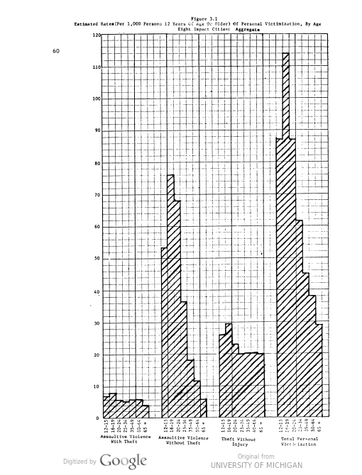 Chart depicting differences in victimization risk by age group